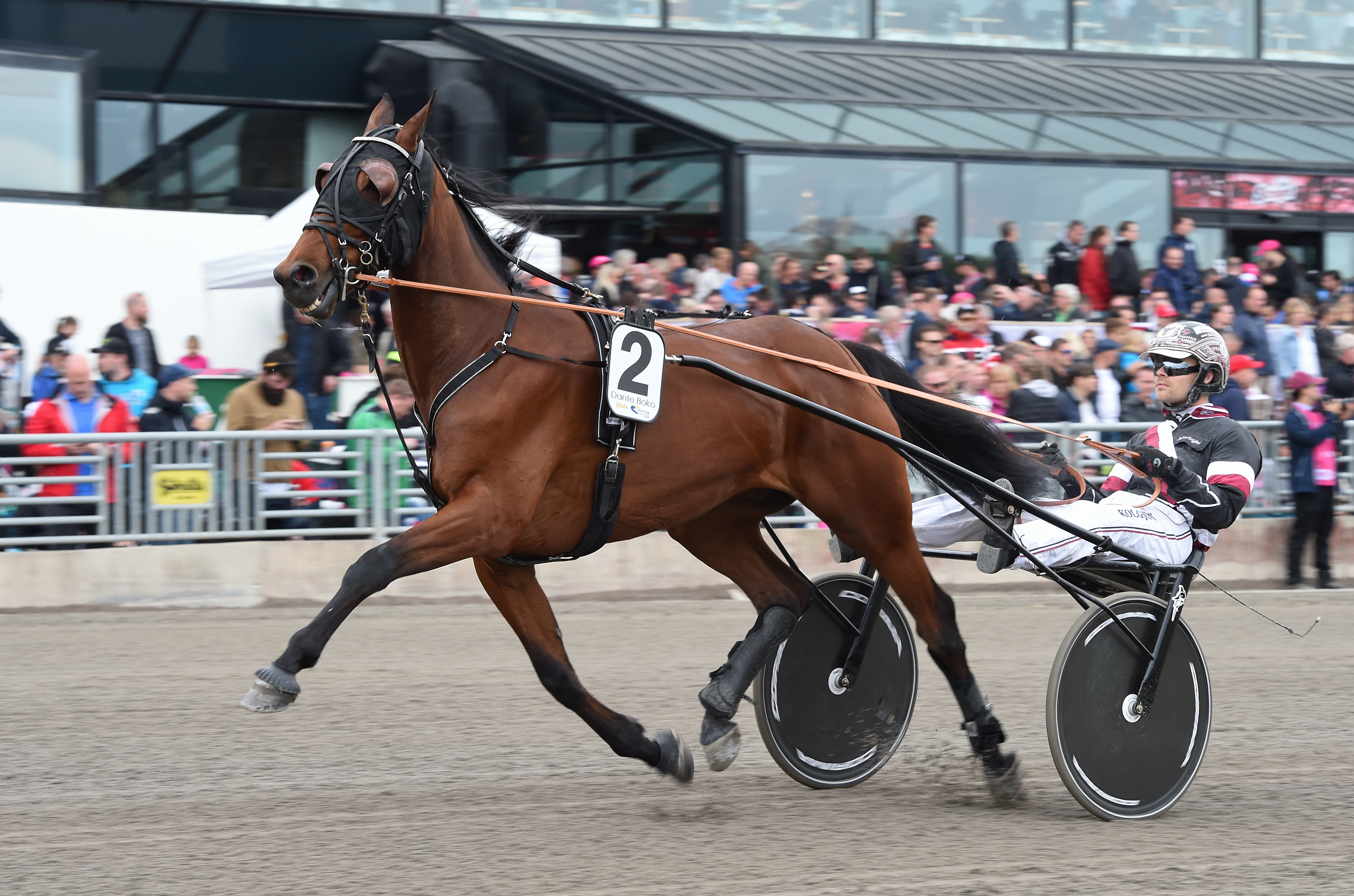 Dante Boko & driver Adrian Kolgjini, "Sweden Cup" at Solvalla in May 2016.